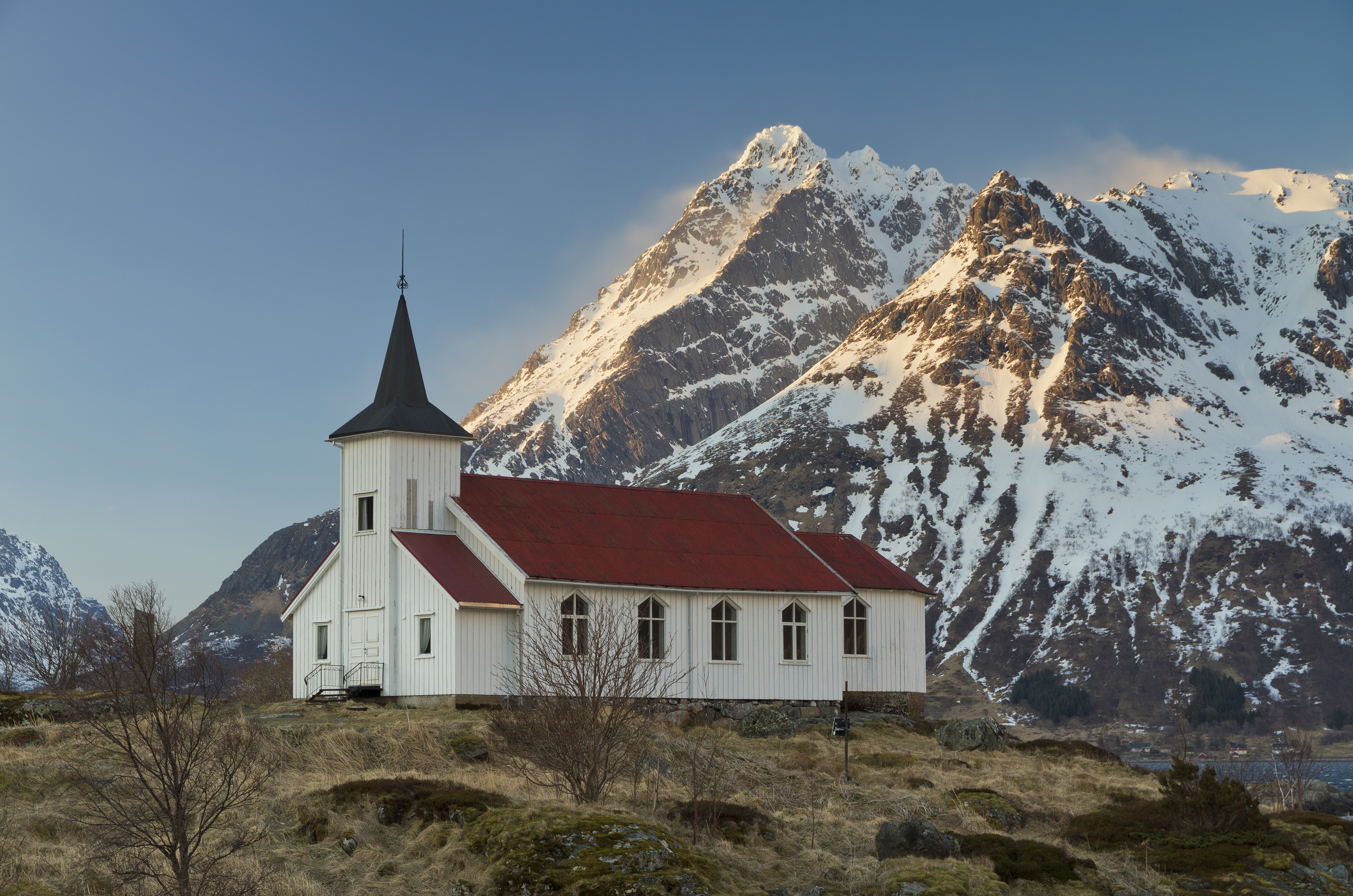 Sildpollnes Church in evening on Sildpollnes peninsula in Austvågøya island, Lofoten, Norway in 2015 April. The mountain in the background is Higravstindan, the highest on the island.